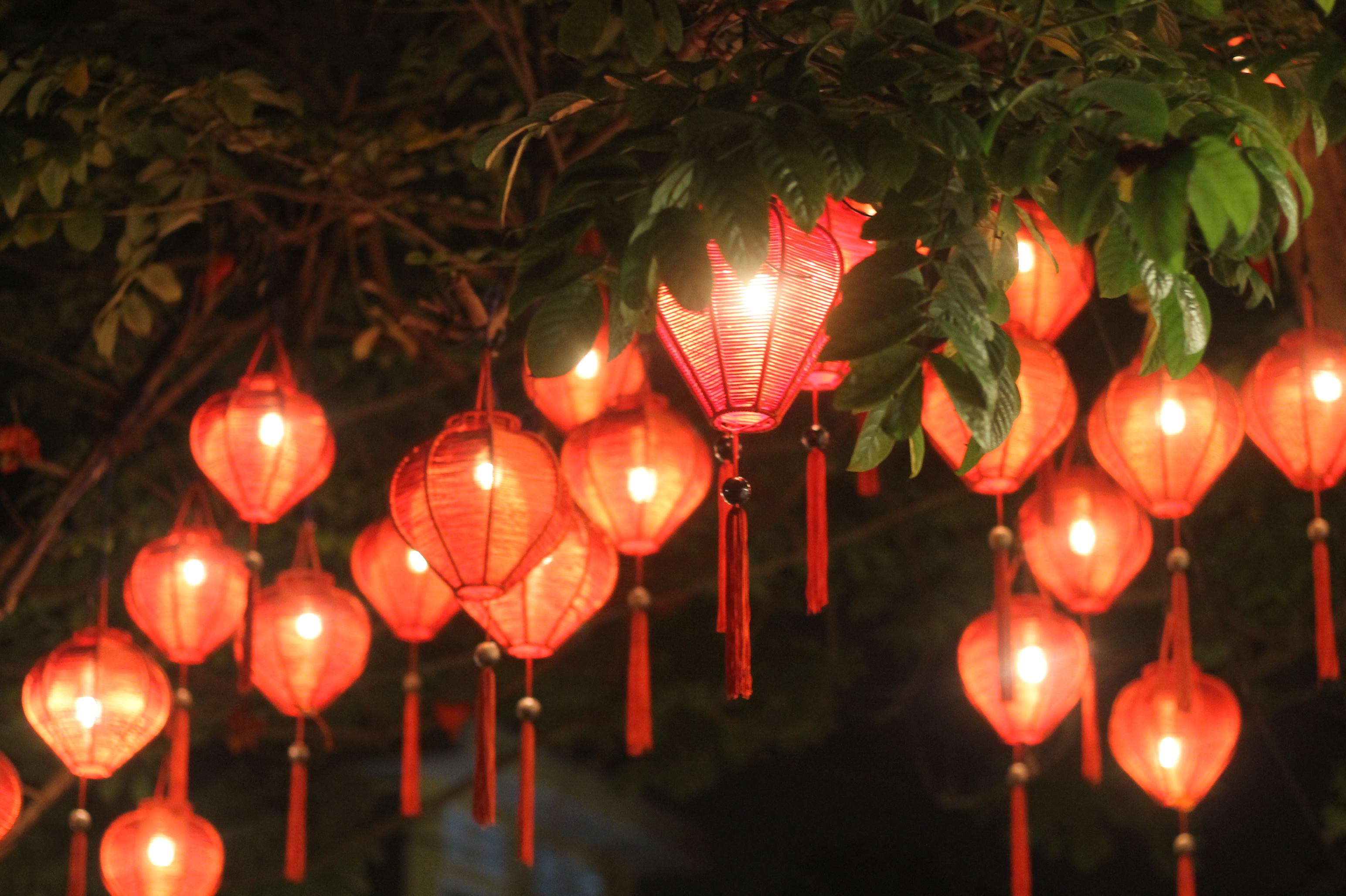 Beautiful red lanterns in Hoi An, Vietnam